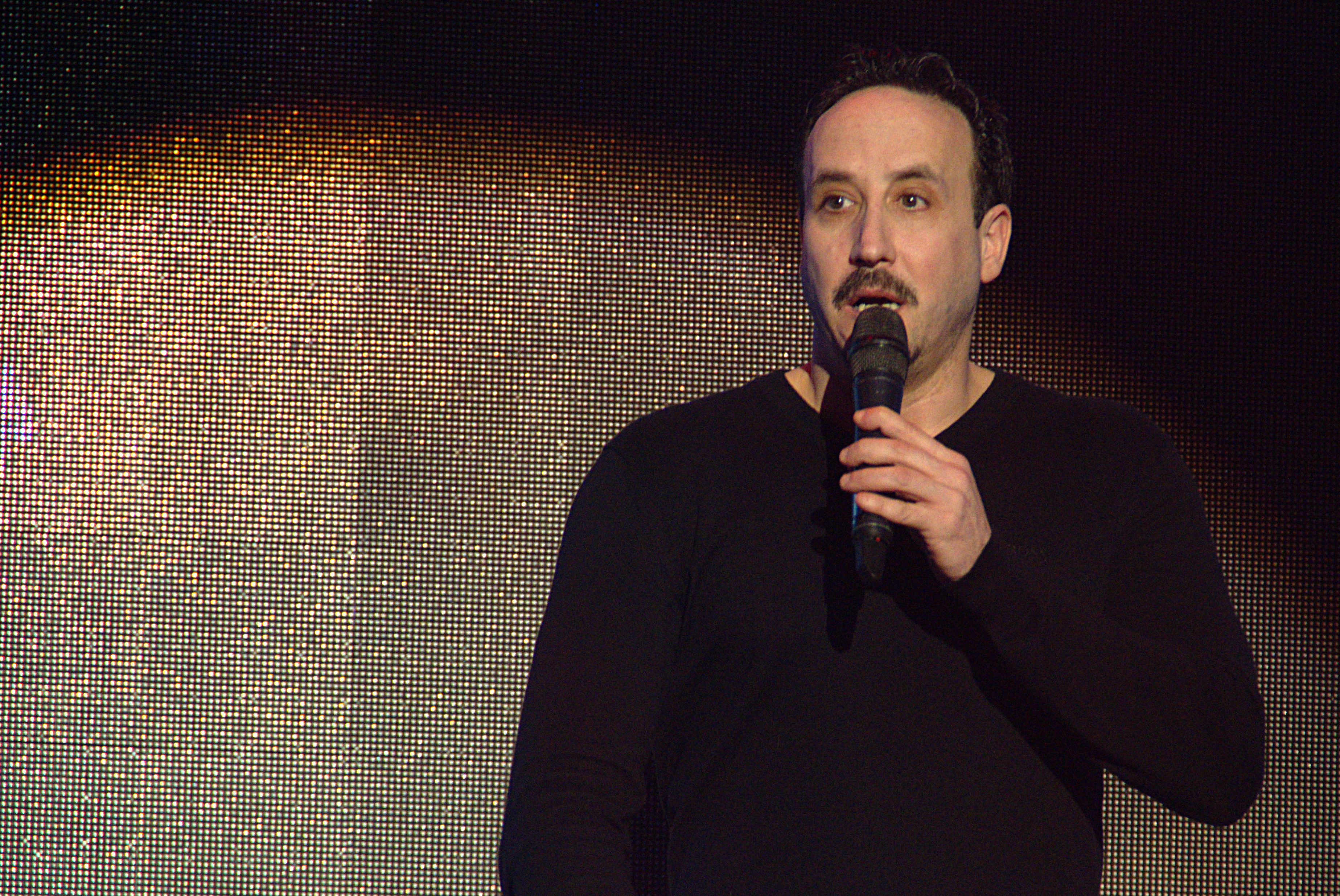 Tunisia Web Awards ceremony in Tunis